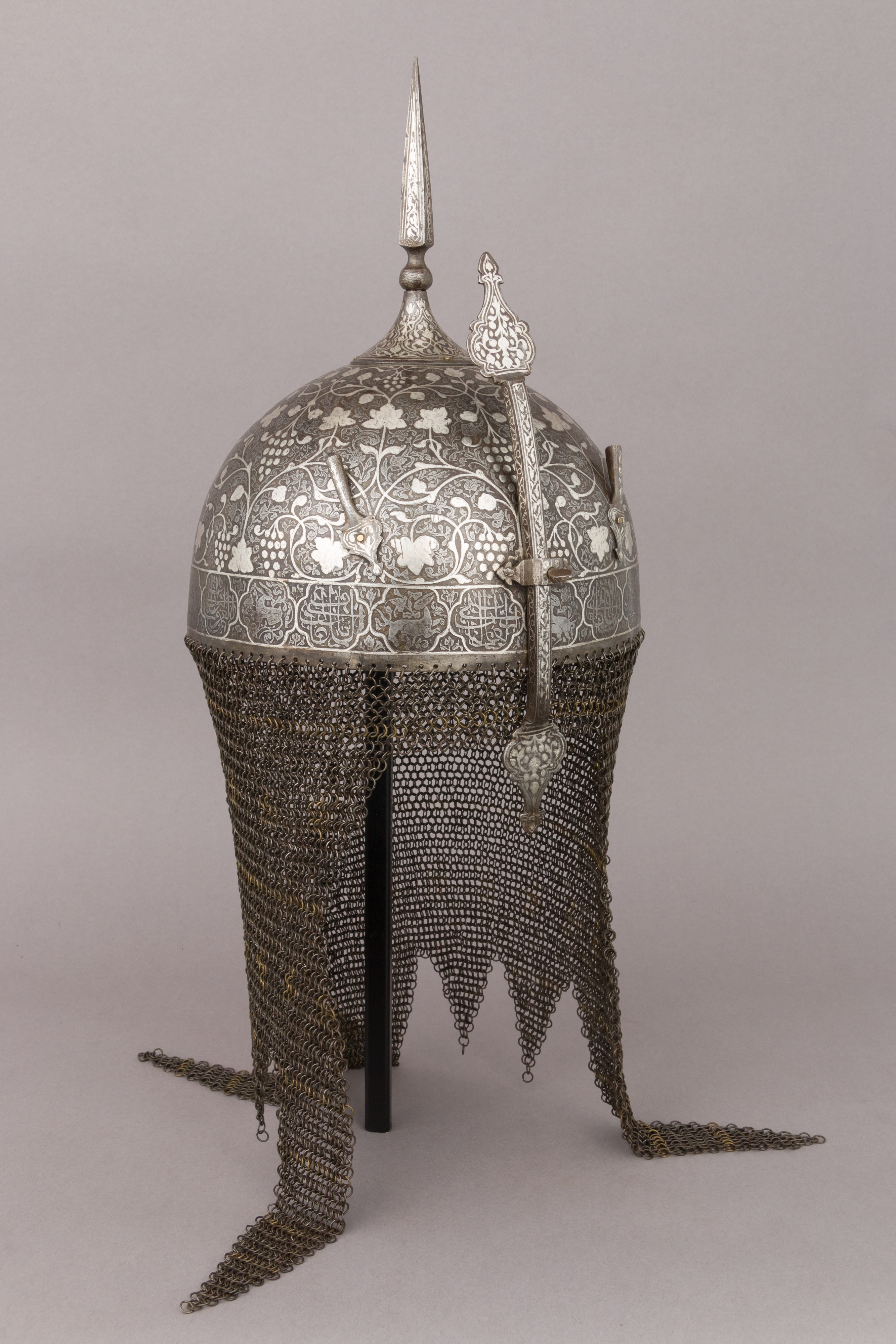 Indian; Helmet, arm guard, and shield; Armor Parts